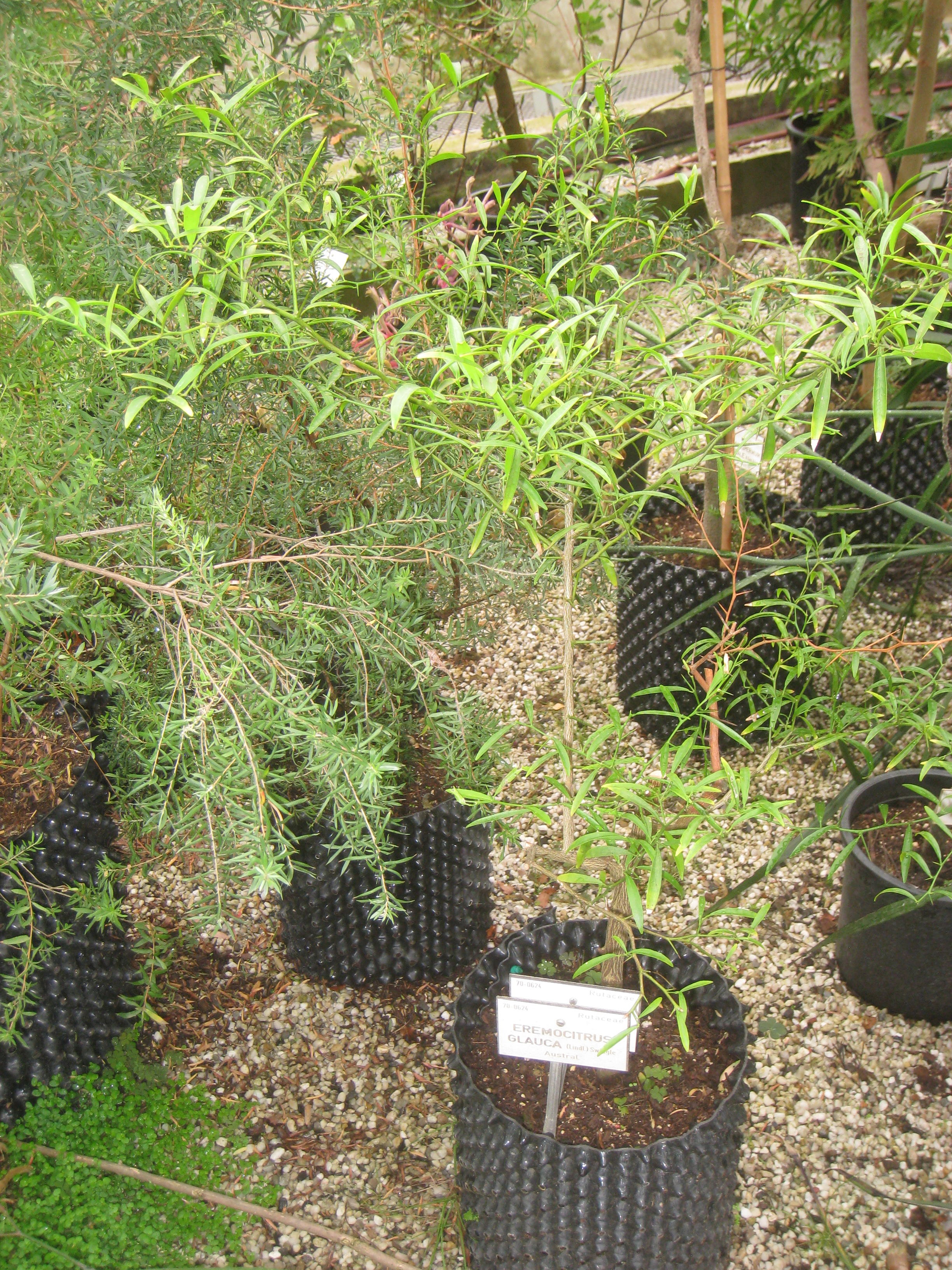 Citrus glauca specimen in the National Botanic Garden of Belgium, Meise, just north of Brussels, Belgium.